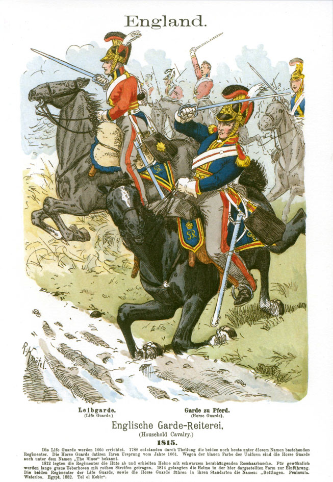 English Life Guards (left) and Horse Guards (right) of 1815 charging.